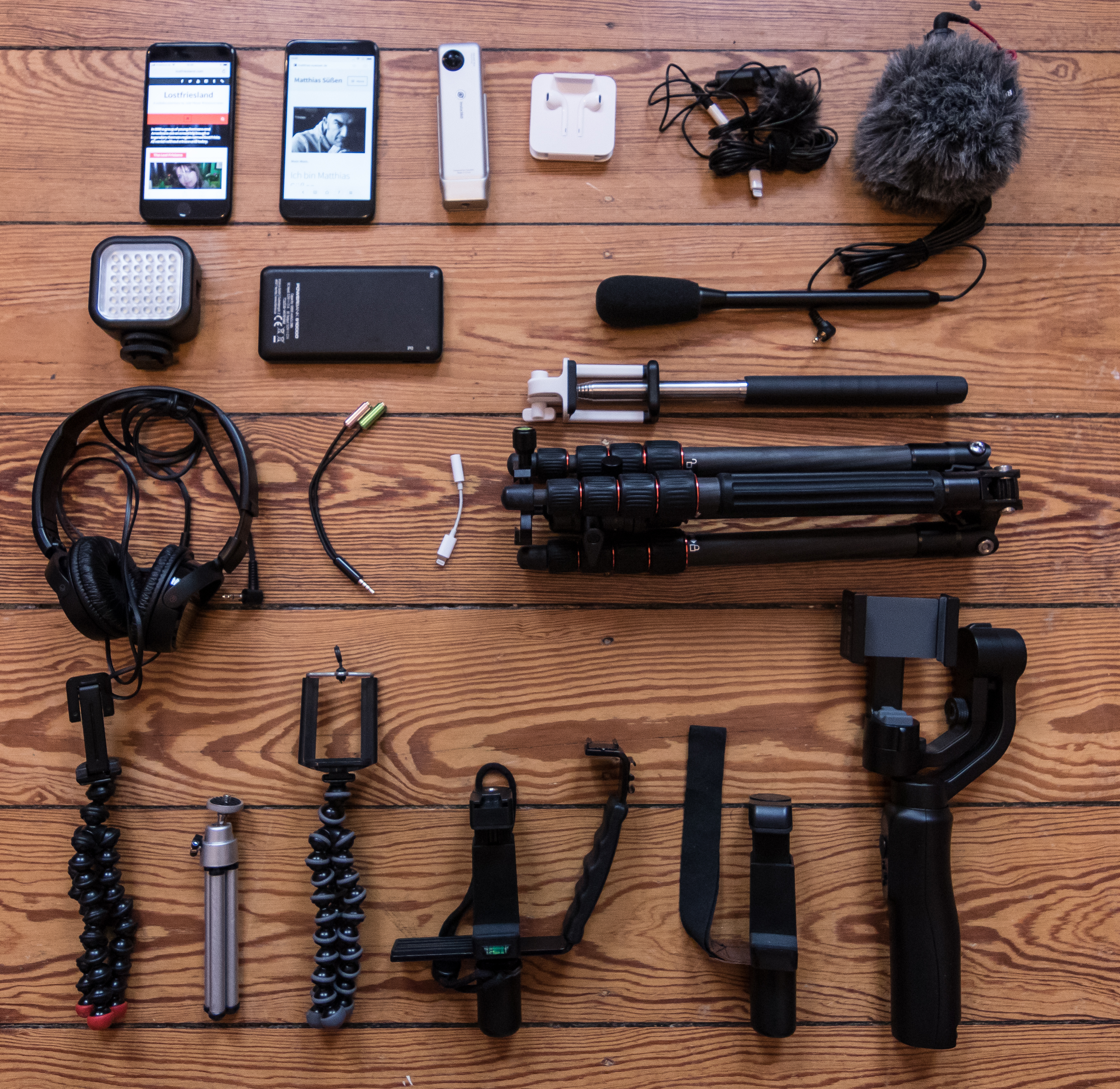 Mobile journalism gear 2018